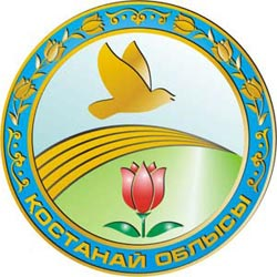 Seal of Kostanay Province (